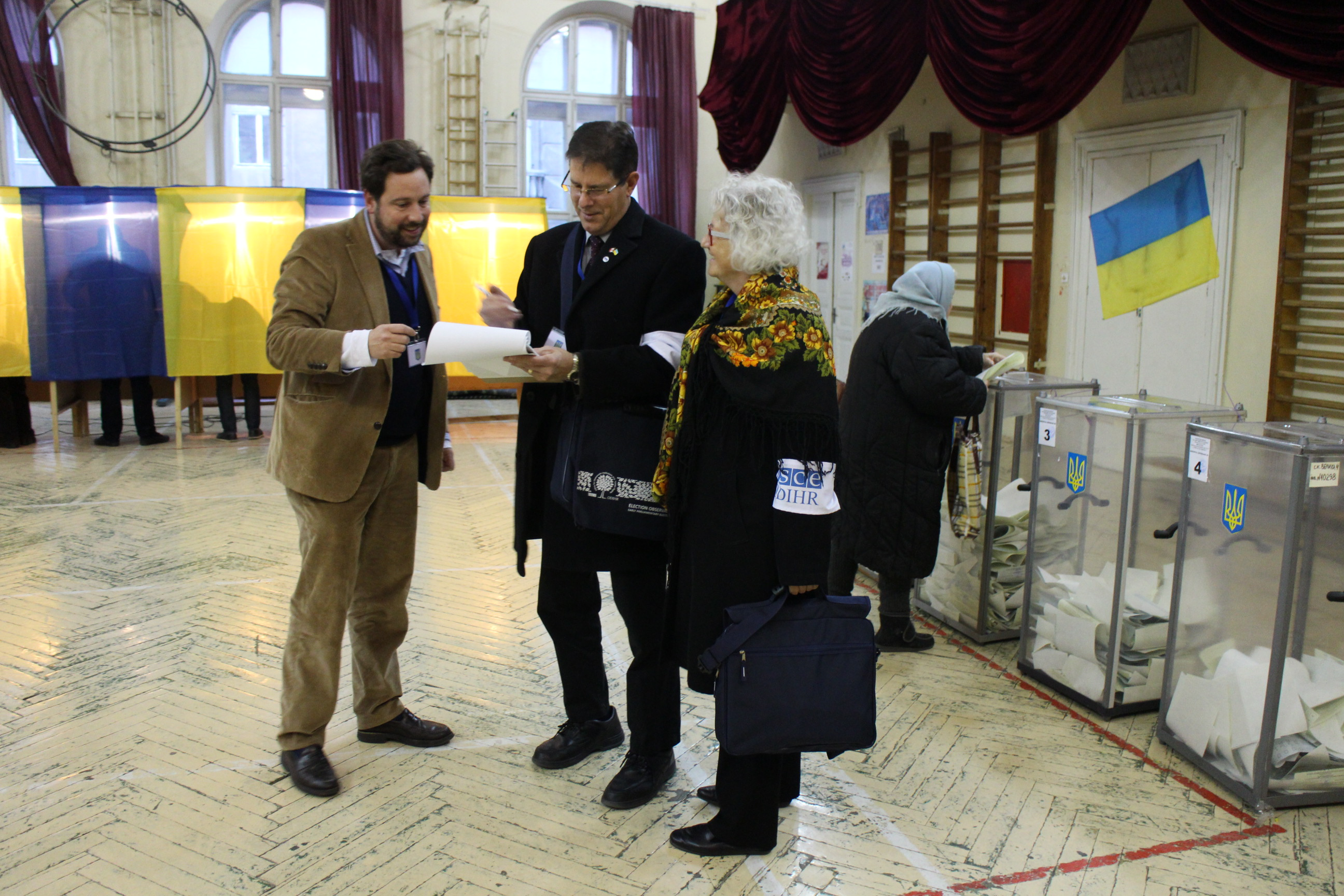 L to R: OSCE PA Deputy Sec Gen Gustavo Pallares, Addie Mark Warawa (MP, Canada) and Linda Duncan (MP, Canada) fill out an observation form at a polling station in Lviv, Oct. 26, 2014